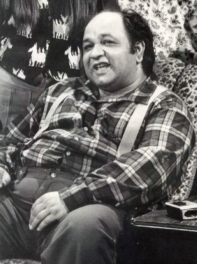 Photo of the cast of the television program The Super. Pictured are: Richard Castellano (Joe Girelli, seated). Standing, from left: Margaret Castellano (daughter), Ardell Sheridan (wife), Bruce Kirby, Jr. (son).